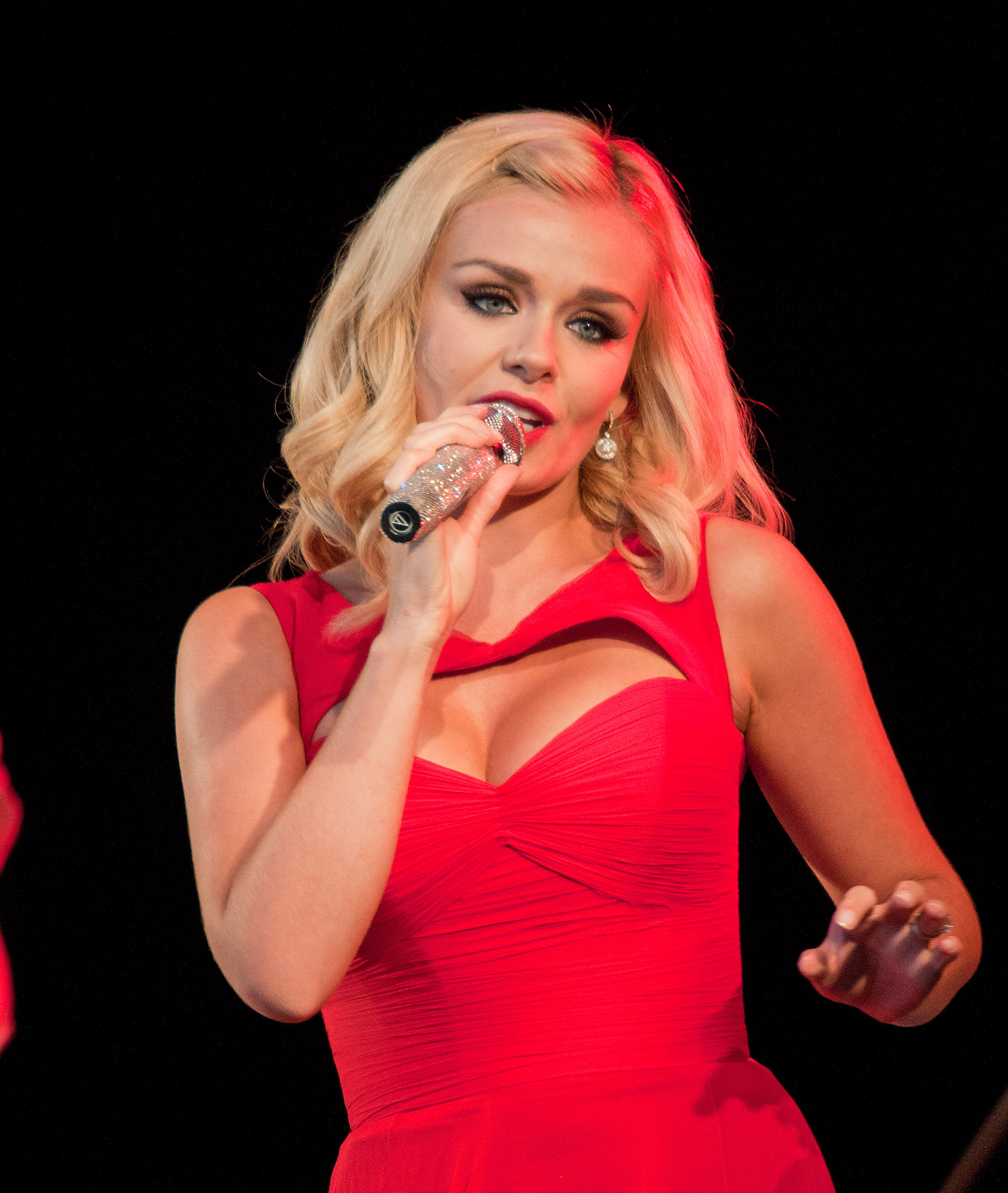 Katherine Jenkins live at Clumber Park in August 2011.